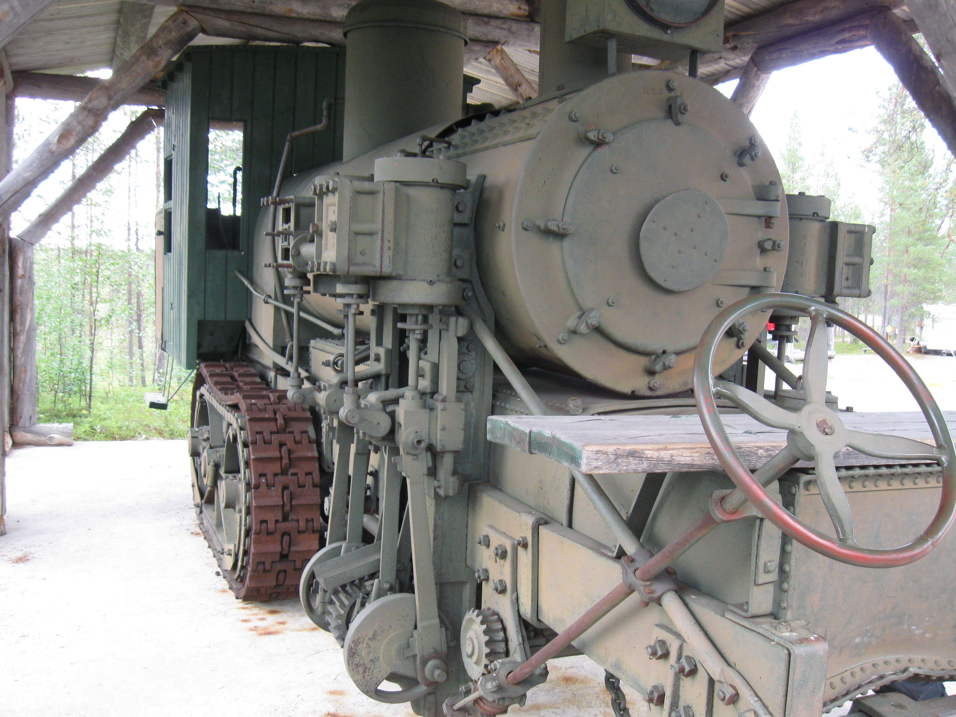 The U.S. made Phoenix Centipede steam engine used for log hauling in Nuortti, Finland in 1913–16, now displayed in Tulppio, Savukoski, Finland.